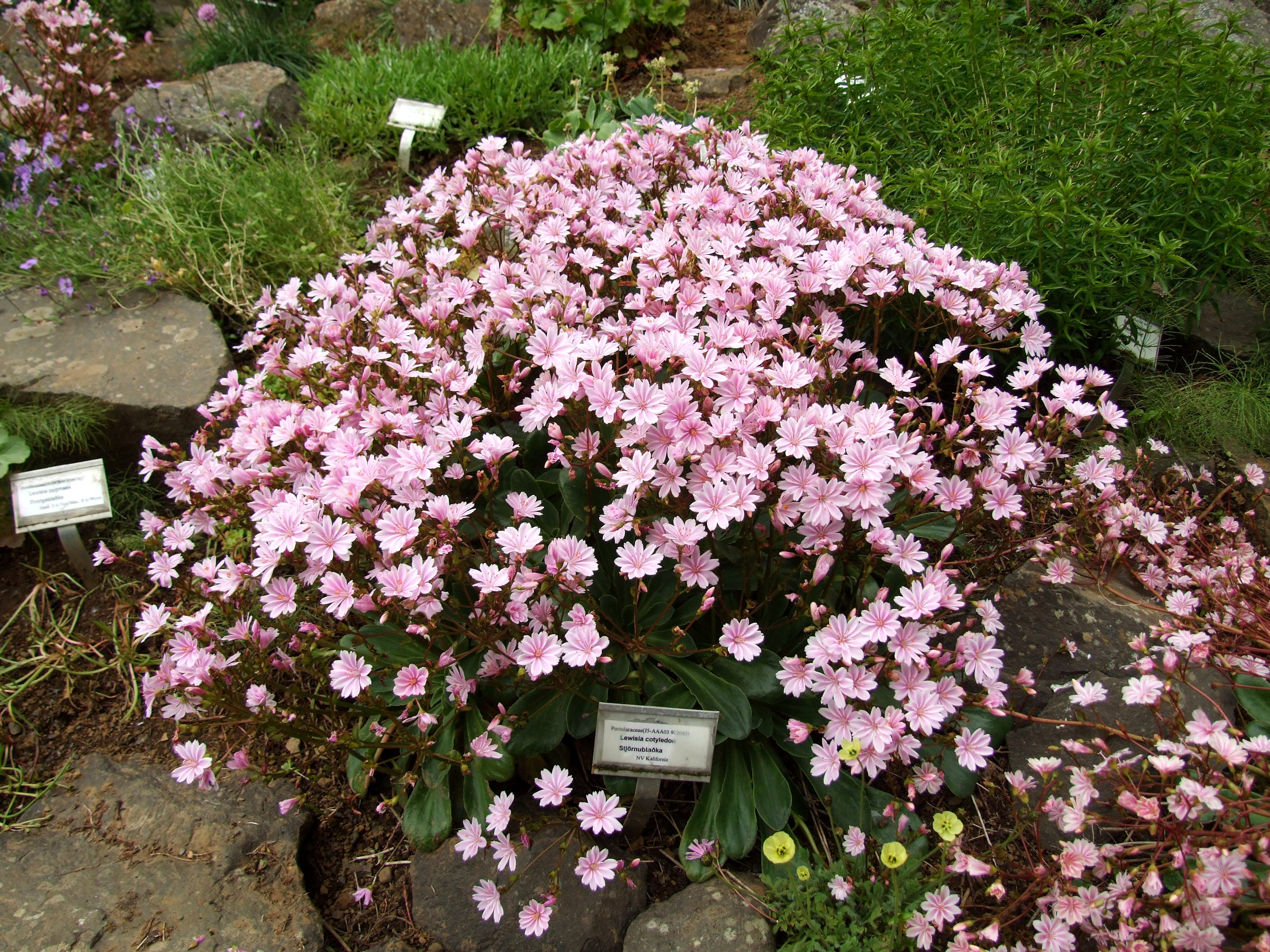 Akureyri Botanical Gardens